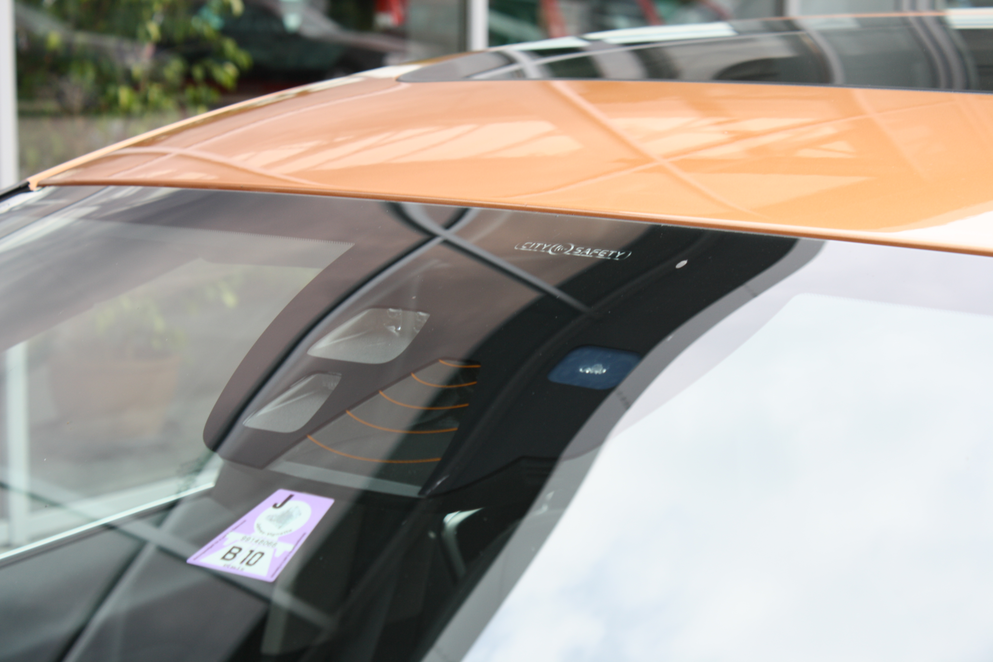 Front camera of Volvo S60